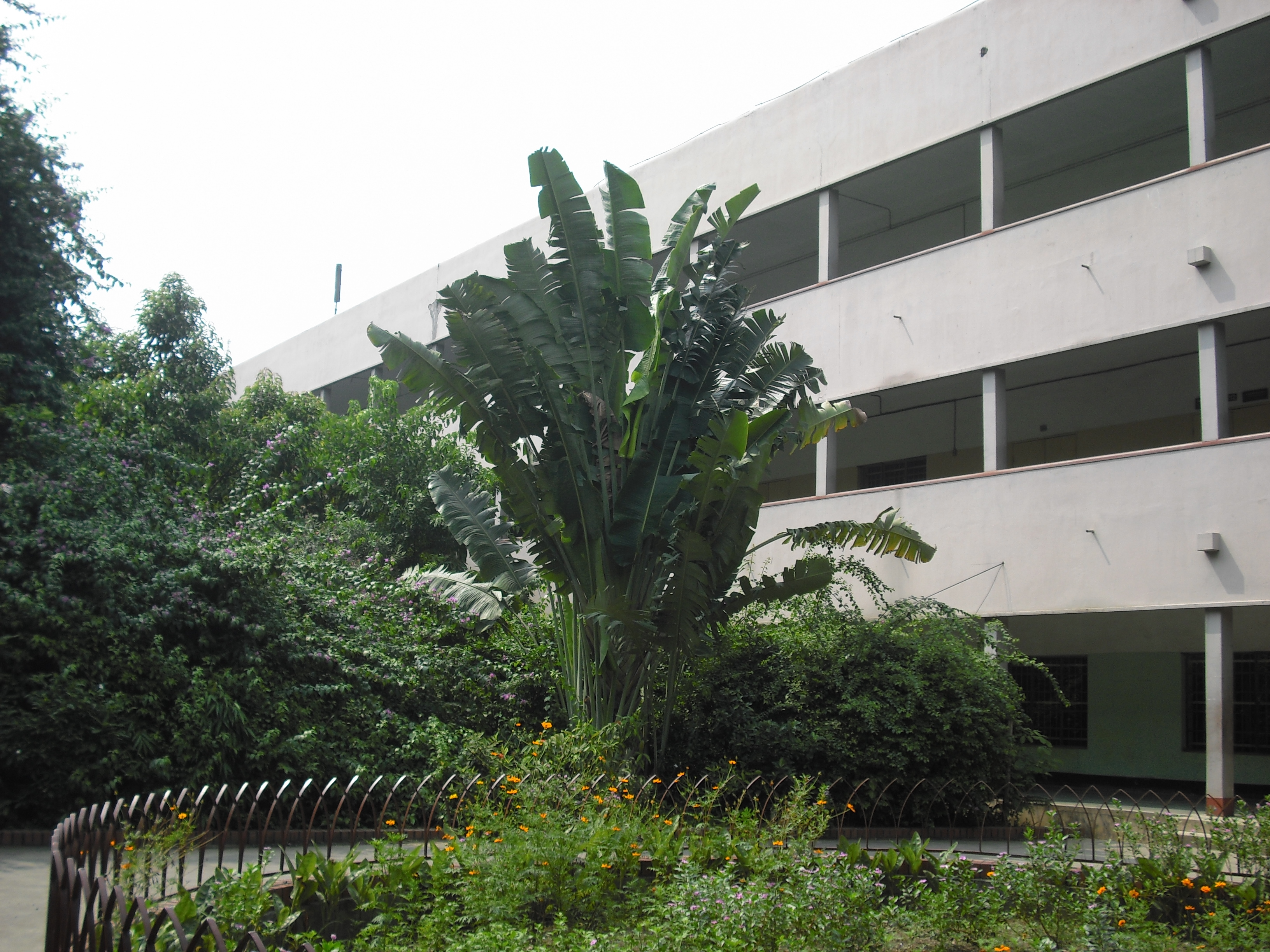 It's both administrative and academic building of Notre Dame College, Dhaka.